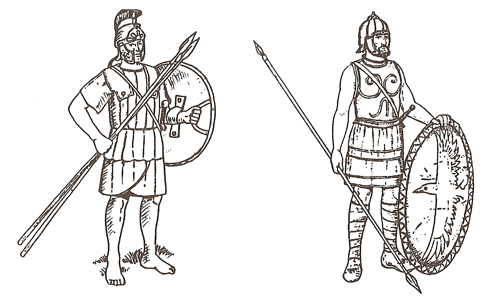 Anatolian soliers of Xerxes army. Left - hoplite from Ionia, right - hoplit from Lydia.